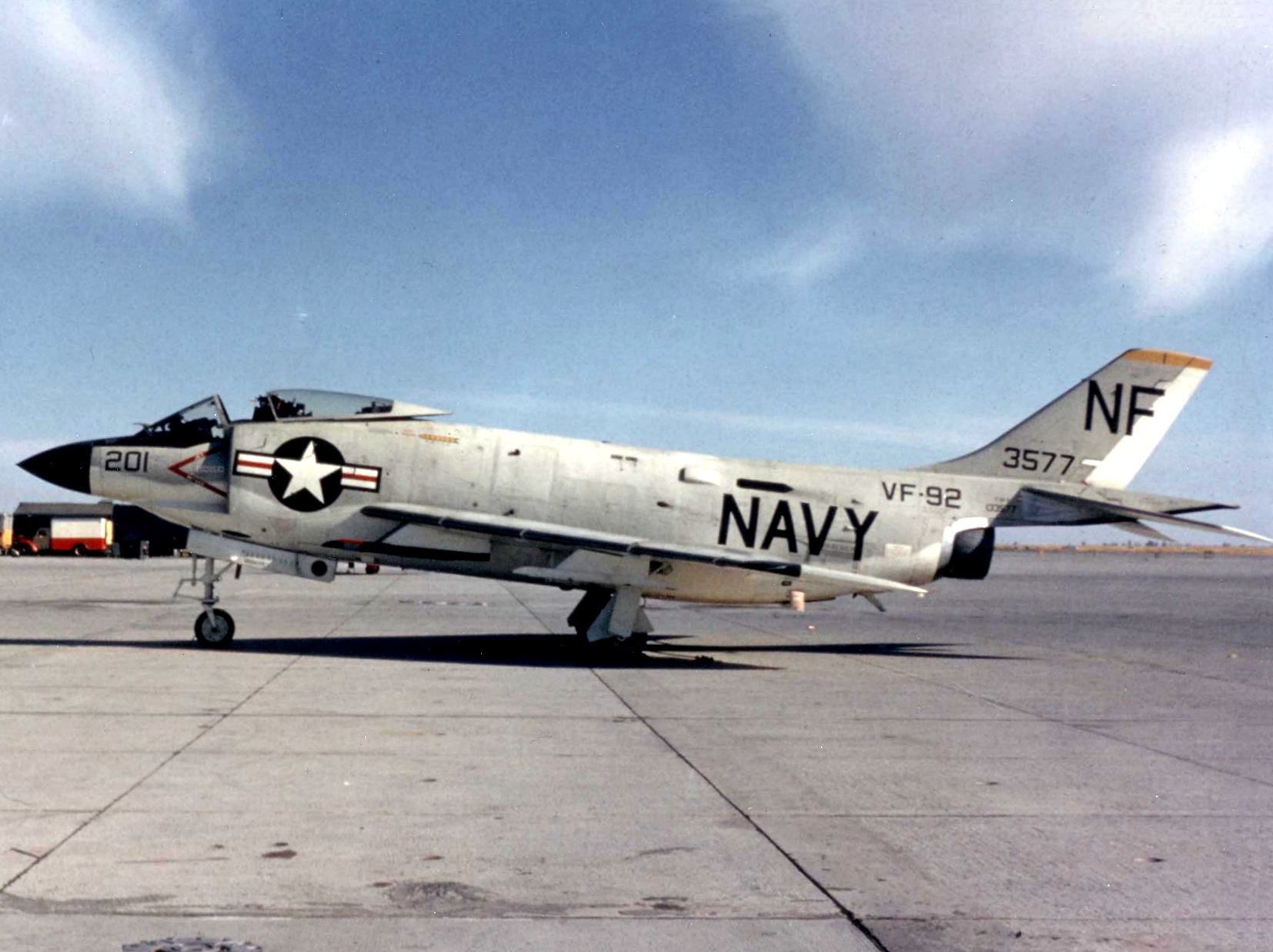 A U.S. Navy McDonnell F-3B Demon (BuNo 133577) from Fighter Squadron VF-92 "Silver Kings" circa in late 1963, when VF-92 transitioned to the F-4B Phantom II.